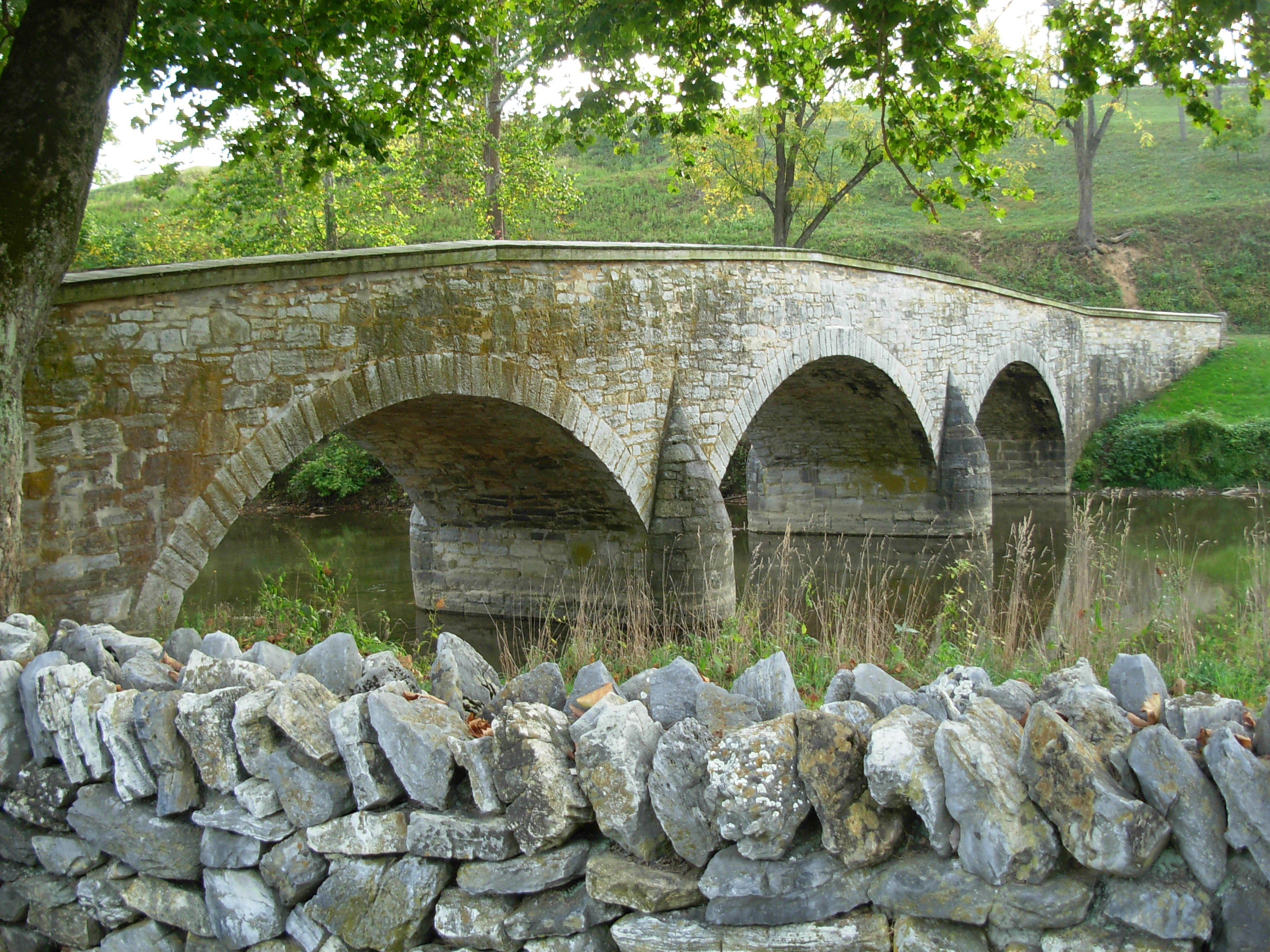 Antietam National Battlefield Memorial